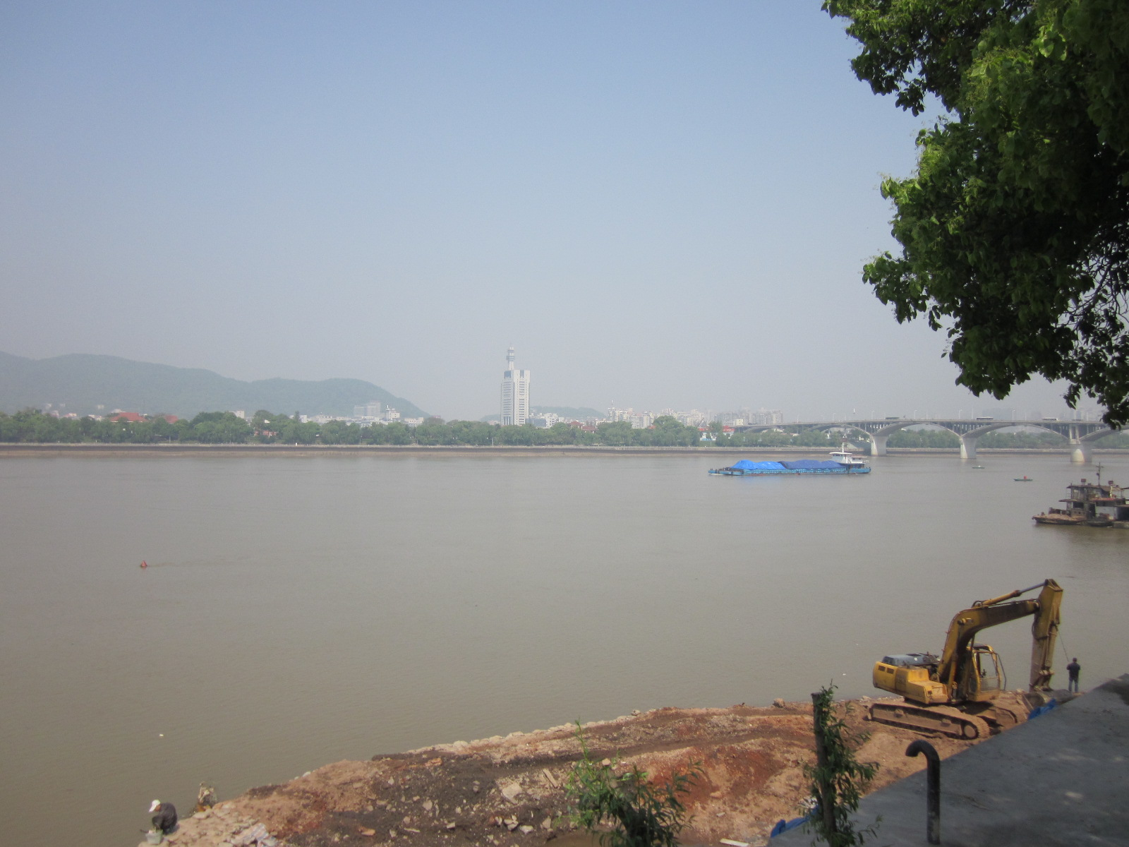 Picture of Xiang River in Changsha, Hunan, China.